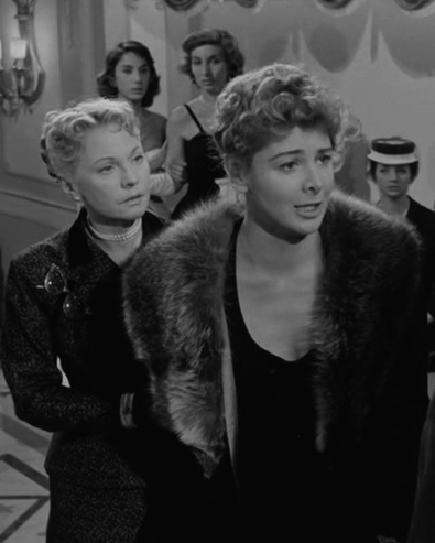 Maria Gambarelli and Eleonora Rossi Drago in a scene of the film Le amiche